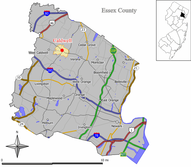 Locator map of in Monmouth County, New Jersey